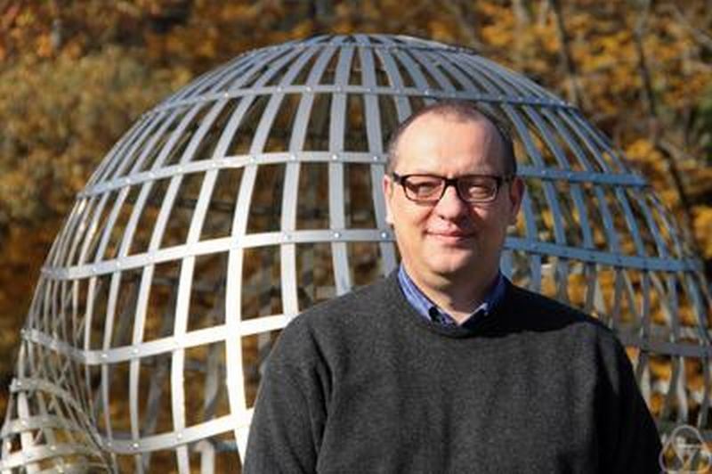 Ulf Hashagen, Oberwolfach 2015